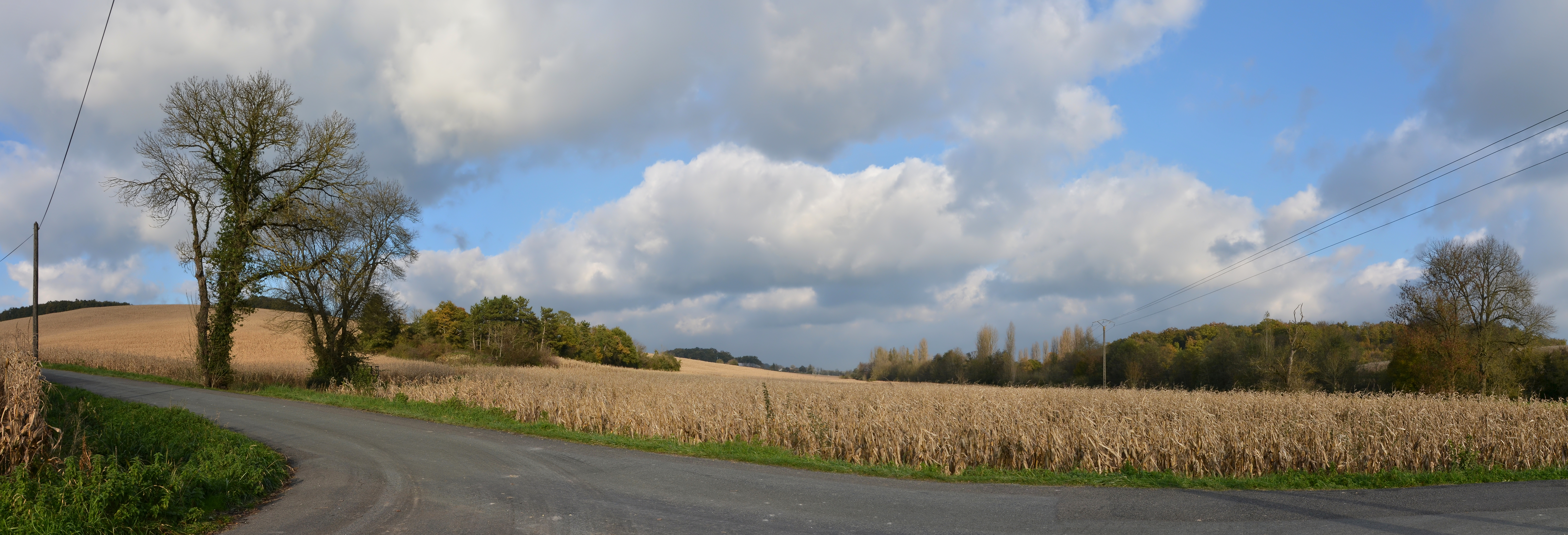 Country crossroad and corn fields on road D 141, Nonac, Charente, France.